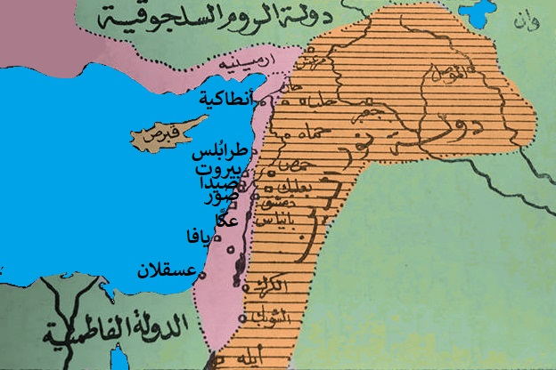 A map showing the Extant of the Zengid kingdom during the reign of Al Malik Al 'Adil Nureddin Al-Zengi.